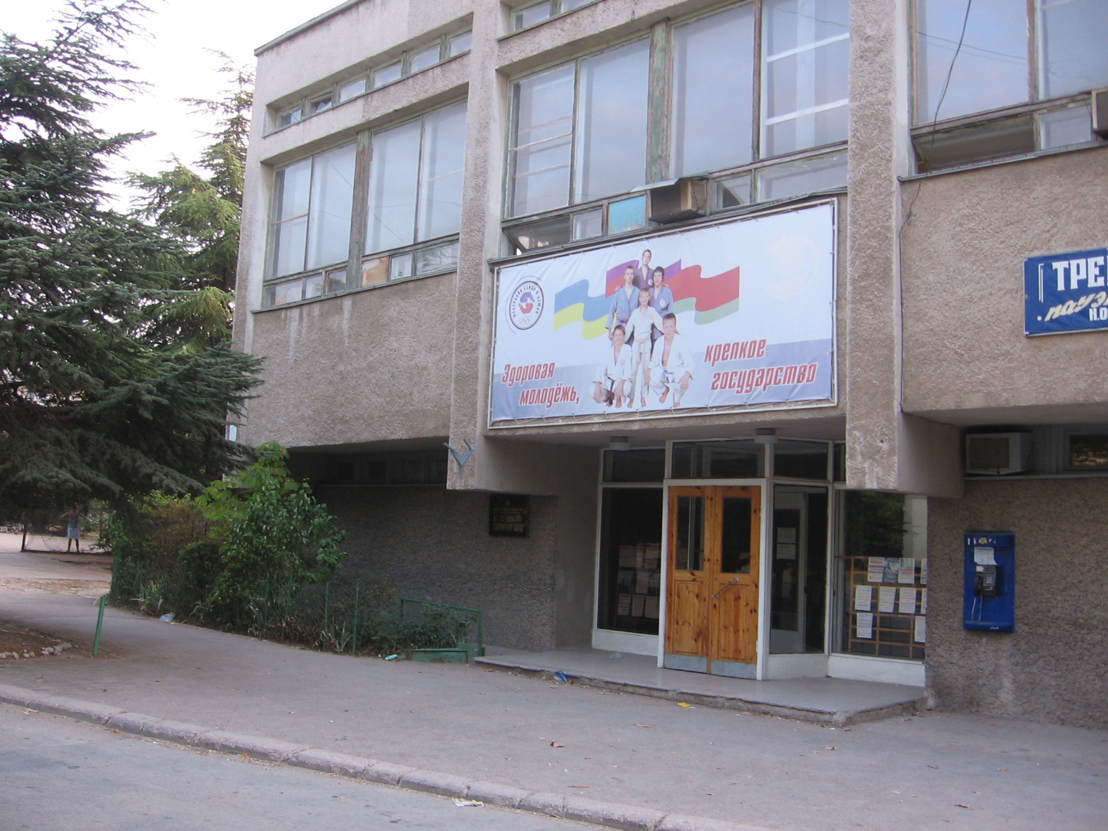 Children and Youth Sports School by the Committee for Physical Culture and Sports of the Sevastopol City Executive Committee. Address is Nadezhdy Ostrovskoy str., 11.